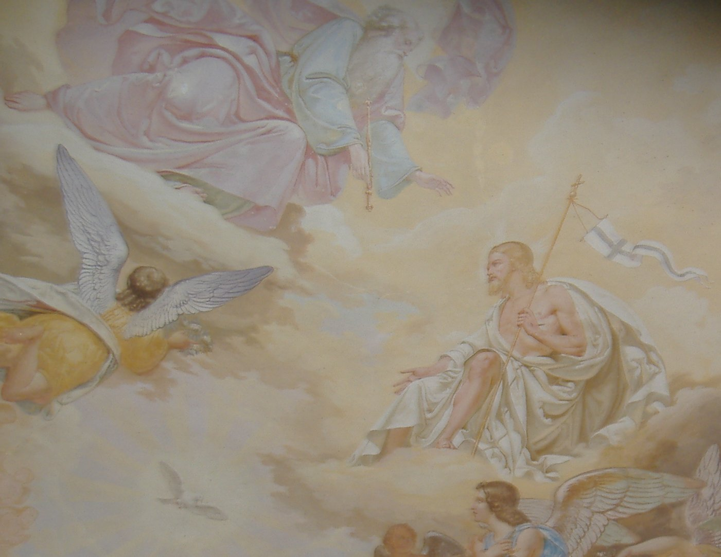 Jesus. Fresco by Rocco Pitacco, 1860 (Barbana, Italy).